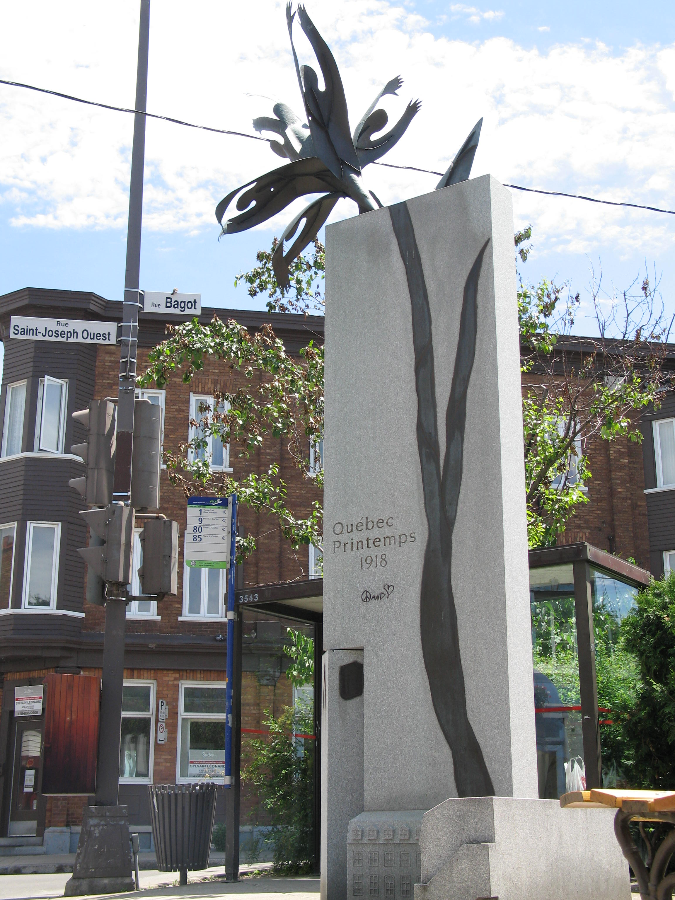 The "Quebec, Printemps 1918" monument by sculptor Aline Martineau was erected in the Saint-Sauveur neighborhood by the municipal authorities in Quebec City in 1998. The monument commemorates the death of four citizens gunned down by Canadian soldiers from Ontario and Western Canada during a series of demonstration against conscription, on April 1, 1918.